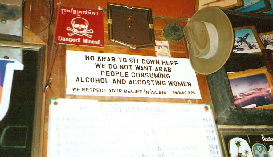 Scan of a photo showing an anti-arab sign in a bar in Pattaya Beach, Thailand taken in April of 2002.